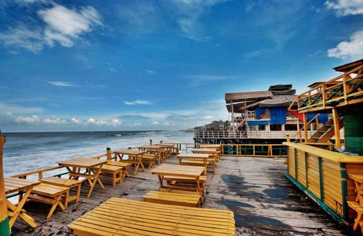 my scenery shot of Cox's Bazar by Idolhunter Lckuang